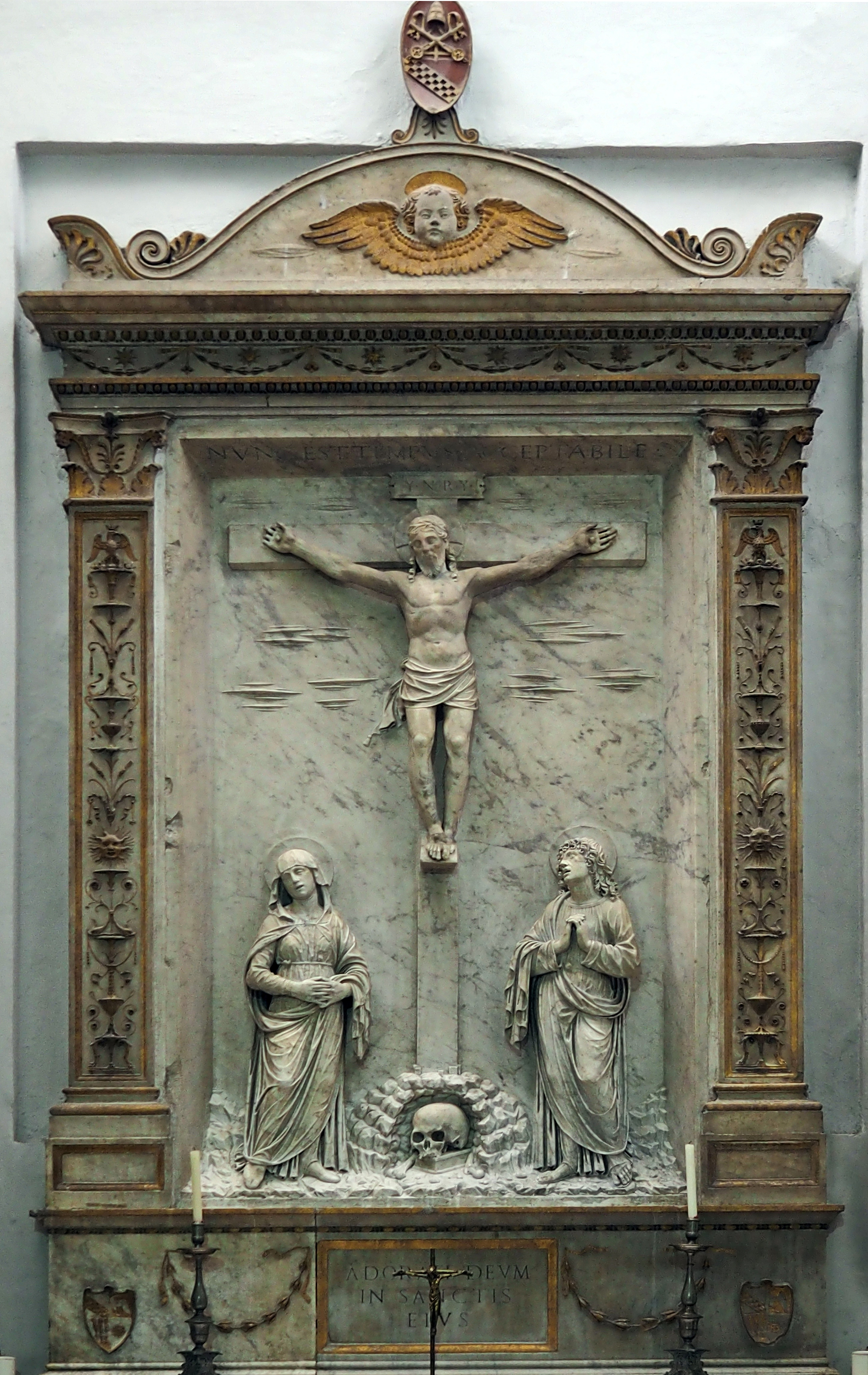 Crucifixion; Santa Maria della Consolazione (Rome); Sacristy; Luigi Capponi